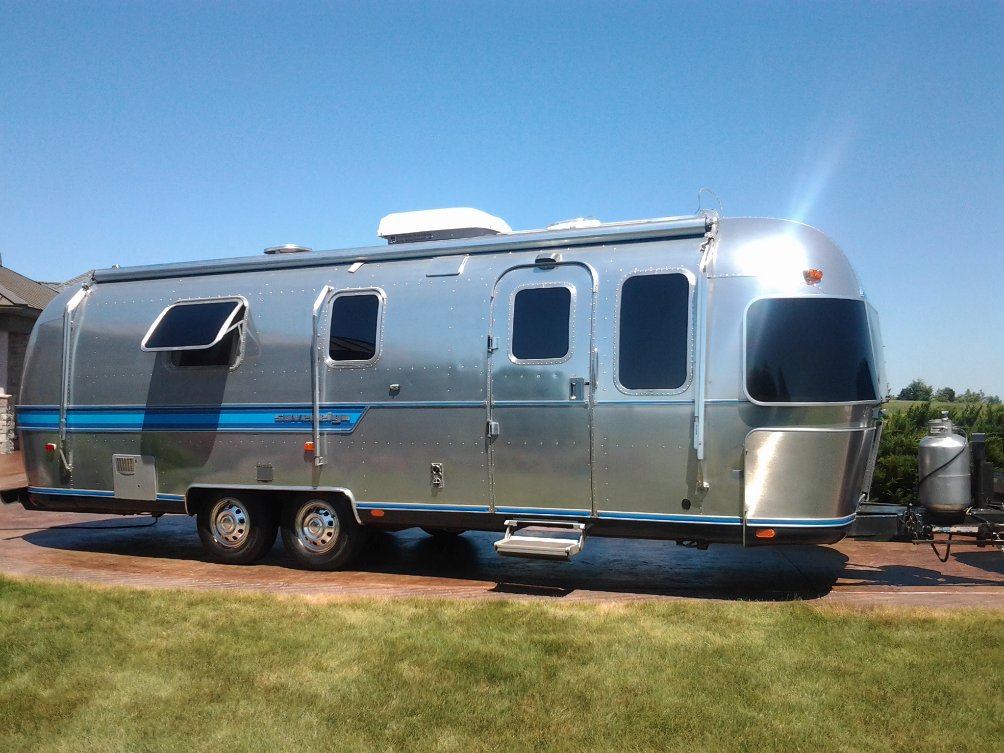 27 foot 1987 Airstream Sovereign built at the Jackson Center Ohio Airstream factory.